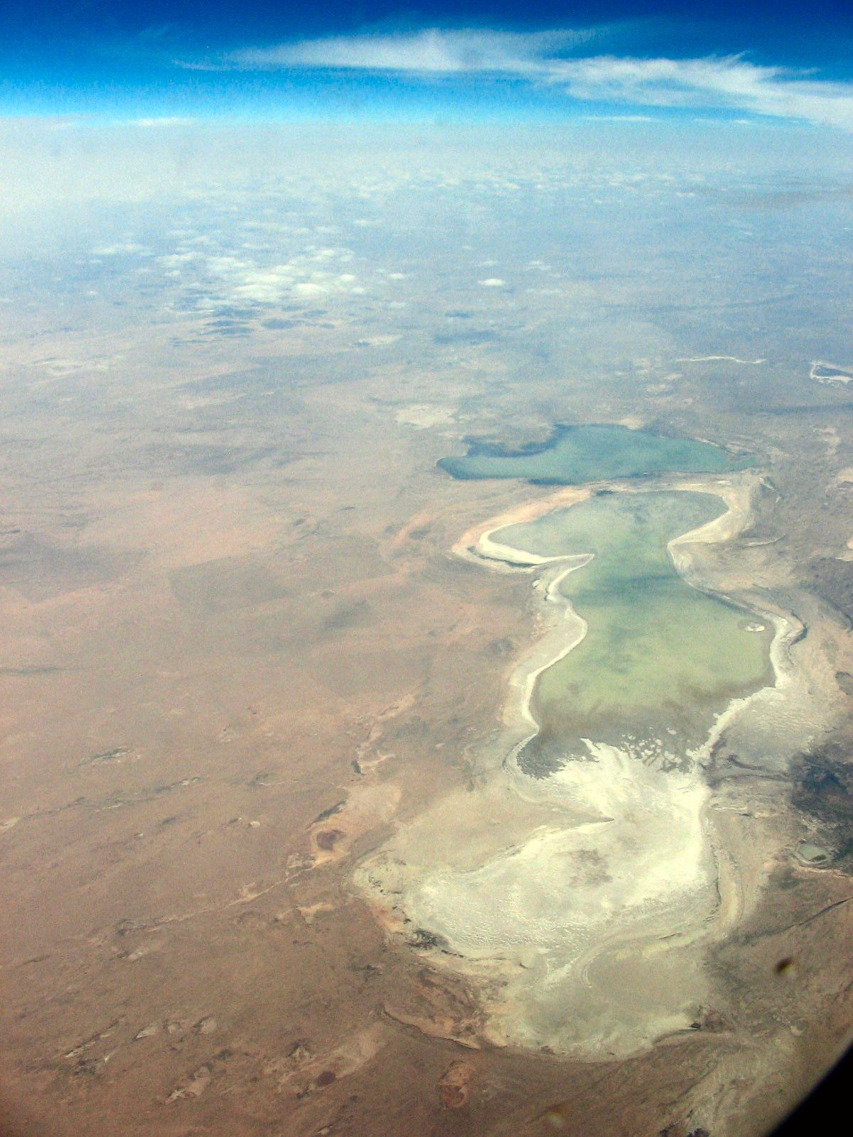 Salt lake in the Gobi Desert in Mongolia, seen from the air.